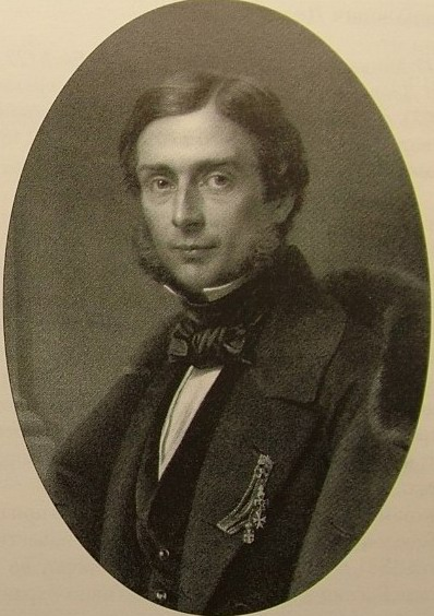 Baron Nikolai Alexandr Pavlovitsch (1821-1899) - senator & ministr of Russia